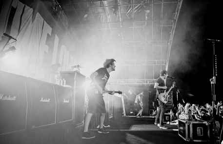 ATL live at the Dirty Work Wold Tour